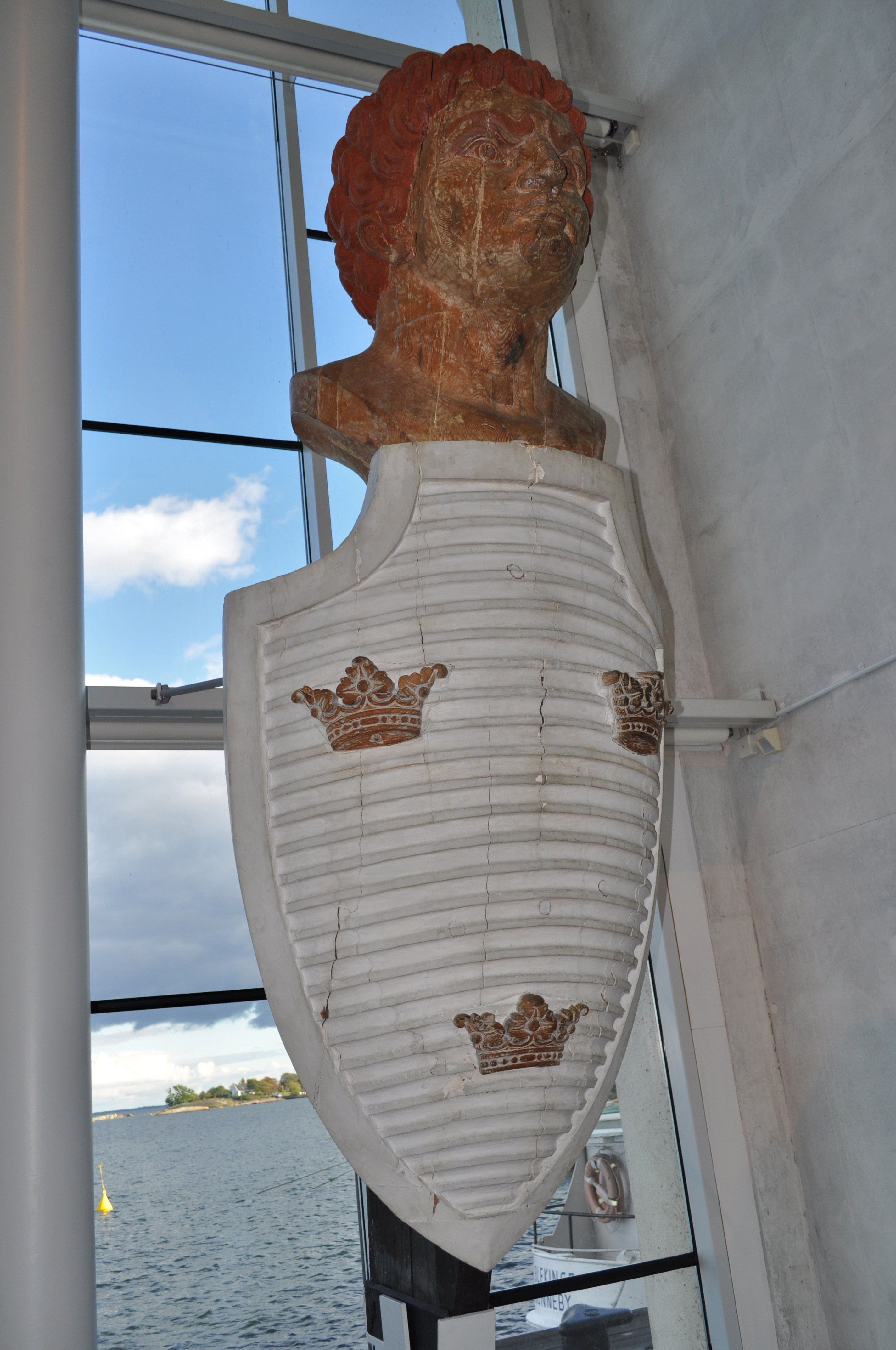 Figurehead, ship of the line HMS Dristigheten (1785)